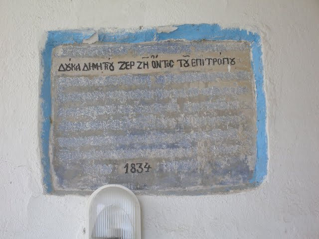 Plaque in Vetitopos/T'rlis, Aegean Macedonia, Greece